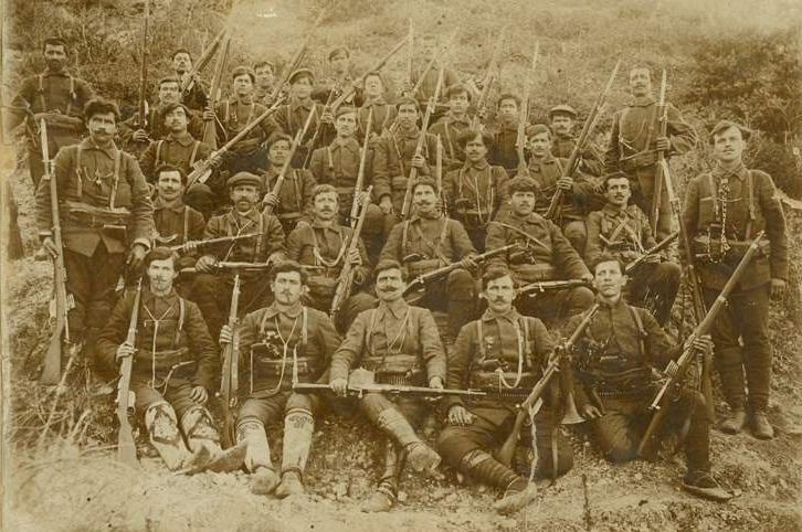 Cheta of Ivan Palyoshev, march 1915